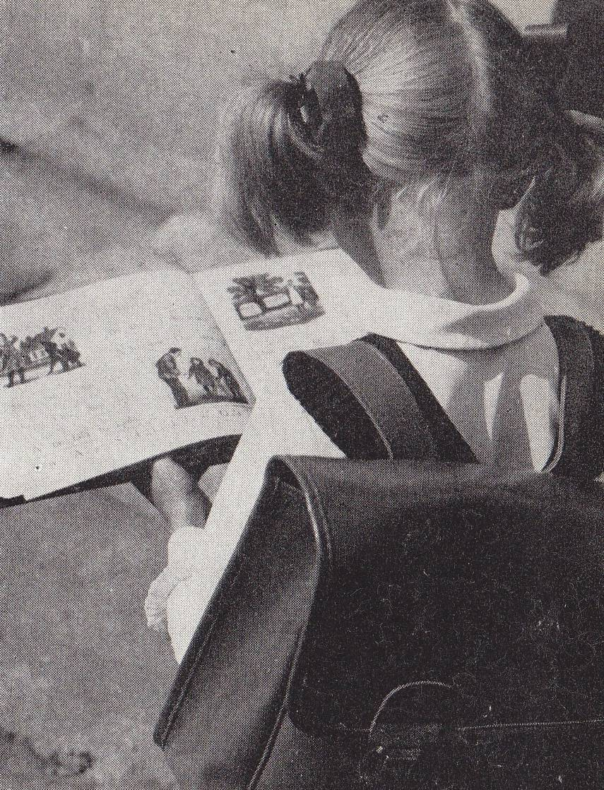 Girl with alphabet book